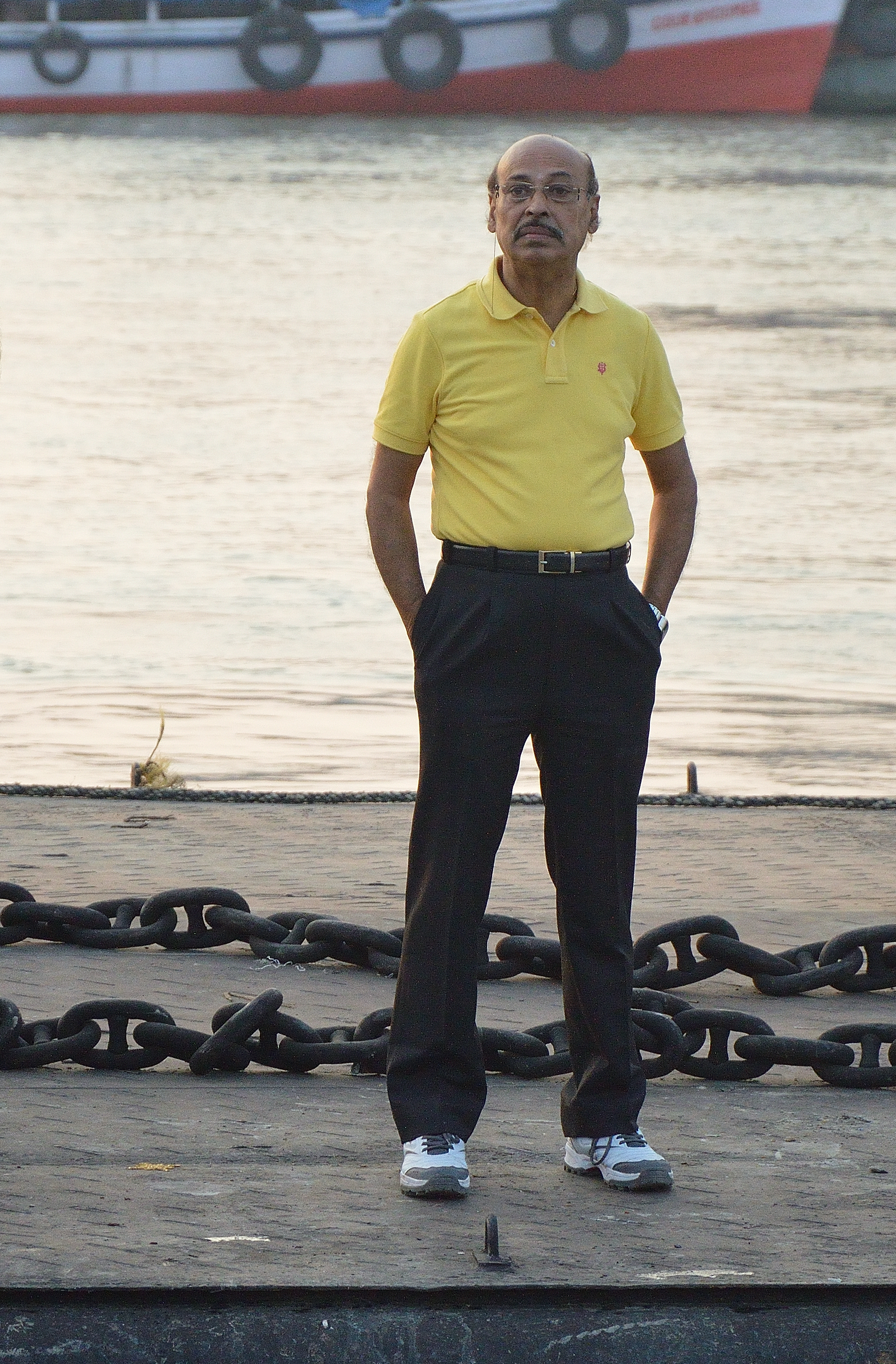 Photographed in Kolkata